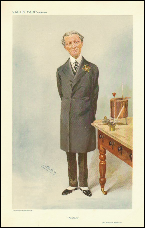 Men of the Day No.1111: Caricature of Sir B Redwood DSc FRSE. Caption reads: "Petroleum"